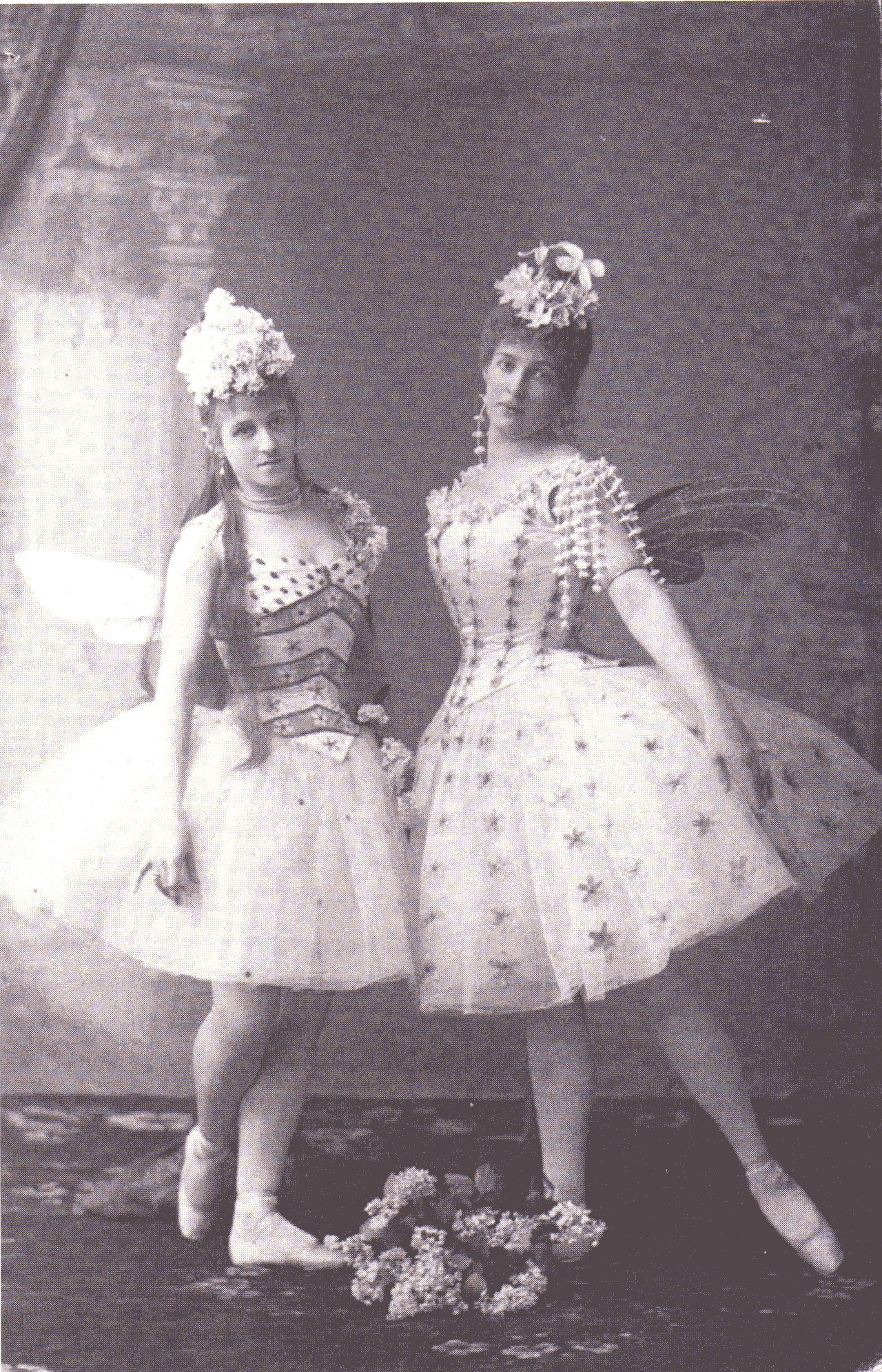 Photo taken by an unknown photographer at the Mariinsky Theatre, St. Peterbsurg, Russia of the Ballerinas Marie Petipa and Lyubov Vishnevskaya in the ballet The Sleeping Beauty, 1890. Photo comes from my own collection and was scanned by me, Mrlopez2681. 01:39, 10 August 2006 (UTC)